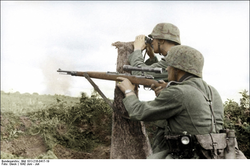 Voronezh, Soviet Union, 1942. A German sniper and spotter in position, observing at Voronezh.Depicted place RussiaDate June 1942date QS:P571,+1942-06-00T00:00:00Z/10Collection German Federal Archives Native nameDas BundesarchivLocationKoblenz (headquarters)Coordinates50° 20′ 32.71″ N, 7° 34′ 21.22″ E Established1946Web page control : Q685753 VIAF: 137346469 ISNI: 0000 0004 0555 2728 LCCN: n92025526 NLA: 36455393 Open Library: OL55798A WorldCat institution QS:P195,Q685753Current location Propagandakompanien der Wehrmacht - Heer und Luftwaffe (Bild 101 I)Accession number Bild 101I-216-0417-19 Source This image was provided to Wikimedia Commons by the German Federal Archive (Deutsches Bundesarchiv) as part of a cooperation project. The German Federal Archive guarantees an authentic representation only using the originals (negative and/or positive), resp. the digitalization of the originals as provided by the Digital Image Archive. Information added by Wikimedia users.*